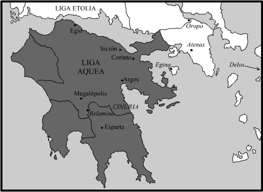 Achaean League 150 BC.